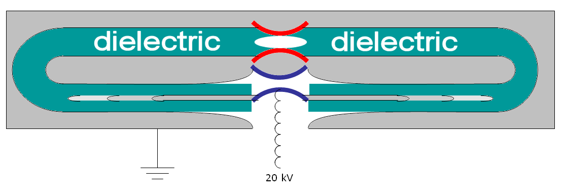 Nitrogen Laser. Composed from various sources on the Web and in the Journal on Scientific Instruments, by me using my computer. Nothing was electronically copied. Everthing was altered. 2005-08